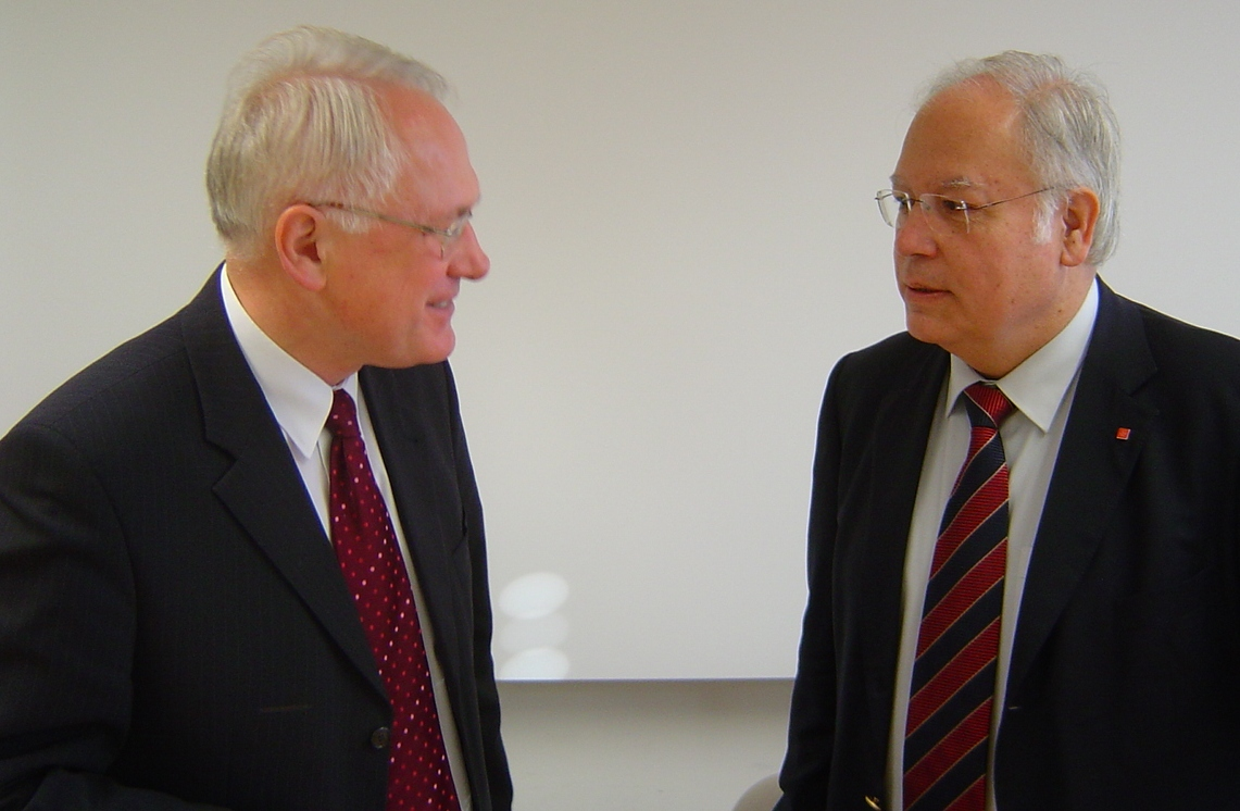 prof Stefan Jurga Rector of Adam-Mickiewicz-University and Manuel Mota Rector of Universidade do Minho in Braga (October 2006)